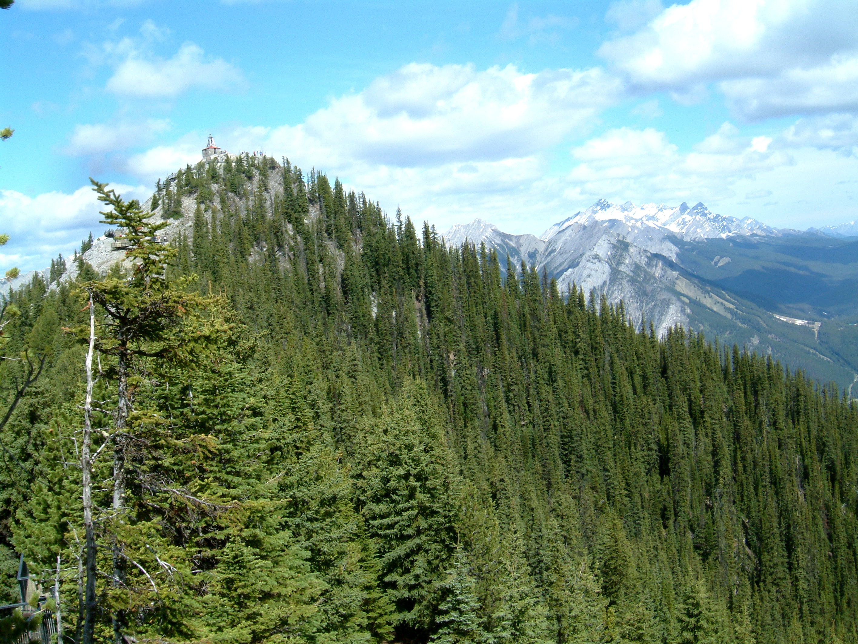 View of the summit of Sulphur Mountain, Banff, Alberta, Canada